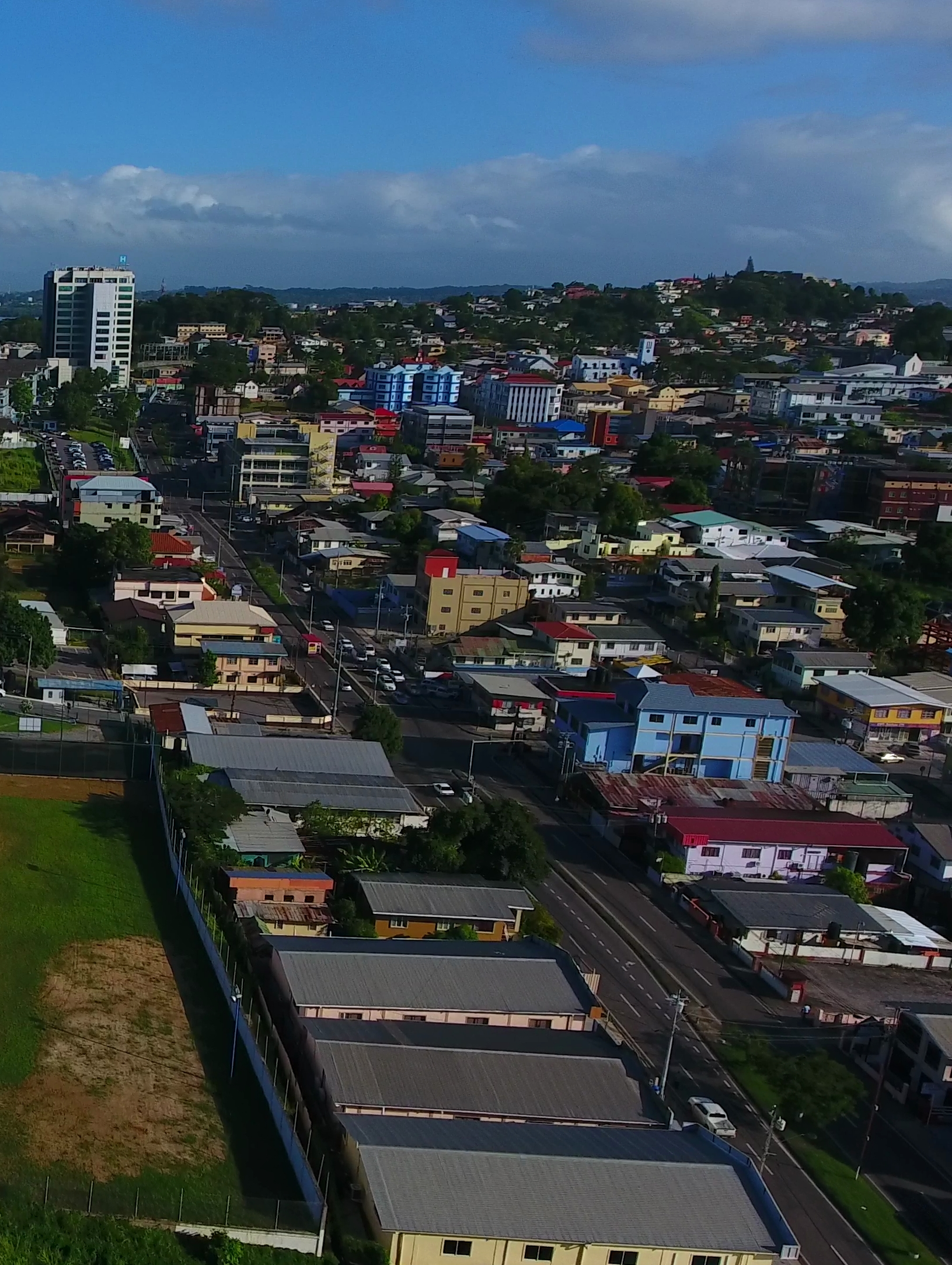 Independence Avenue, San Fernando, Trinidad and Tobago. Top left: San Fernando General Hospital. Top right: San Fernando Hill. Photo taken as part of the Southern Trinidad Aerial Photo Project, a small project sponsored by WMDE. Drone used: DJI Phantom 4. Snapshot taken from video footage via VLC, then cropped with IrfanView.